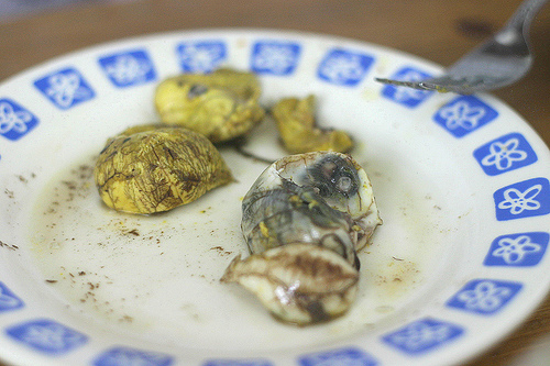 Dissected Balut, showing the head part of the duckling.